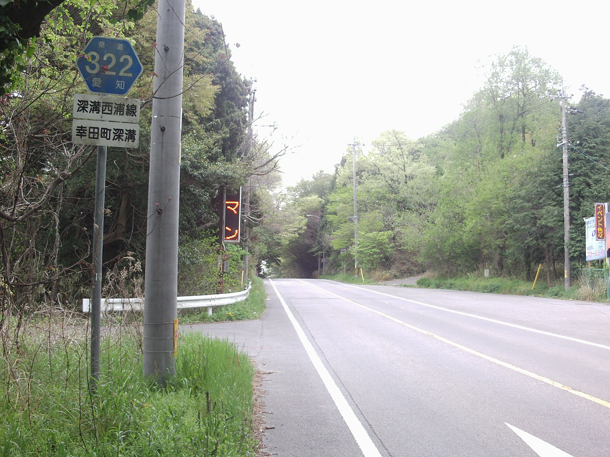 Aichi prefectural road No.322 in Fukozu, Kota-cho, Nikata-gun, Aichi.